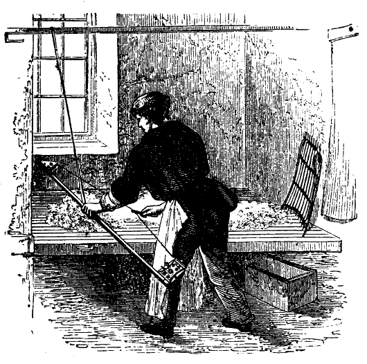 Workplace for using a "faktbåge" (swedish) a tool used to handle wool before Carding.